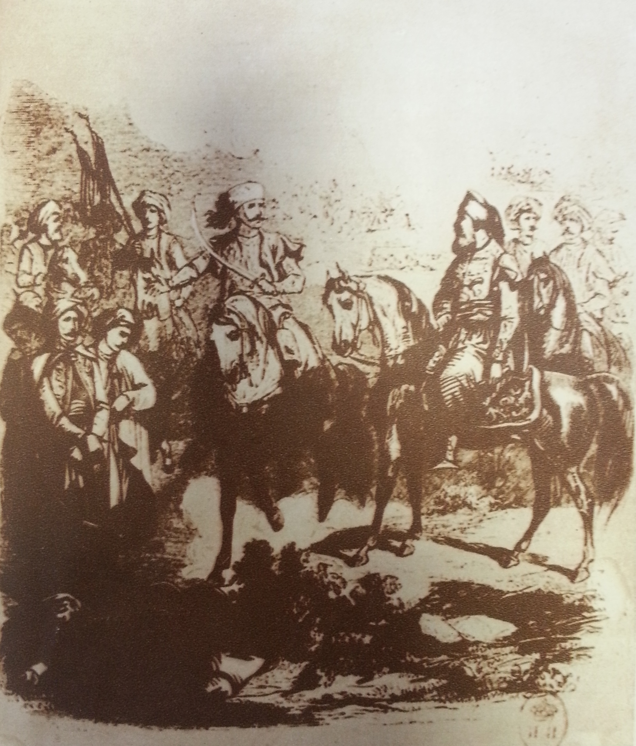 Ibrahim Pasha at the battle of Nezib